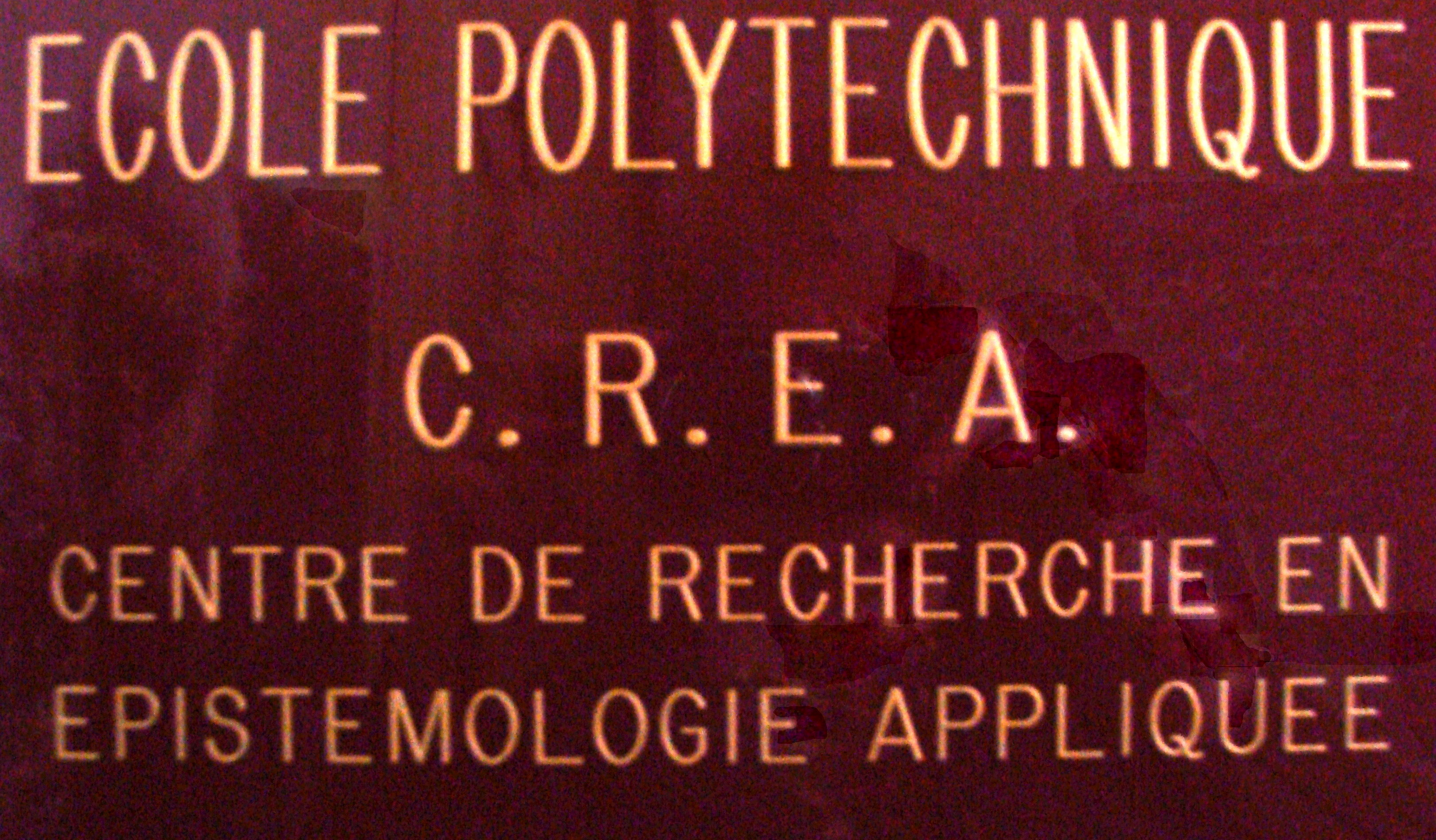 Photo of building sign. From CREA homepage.